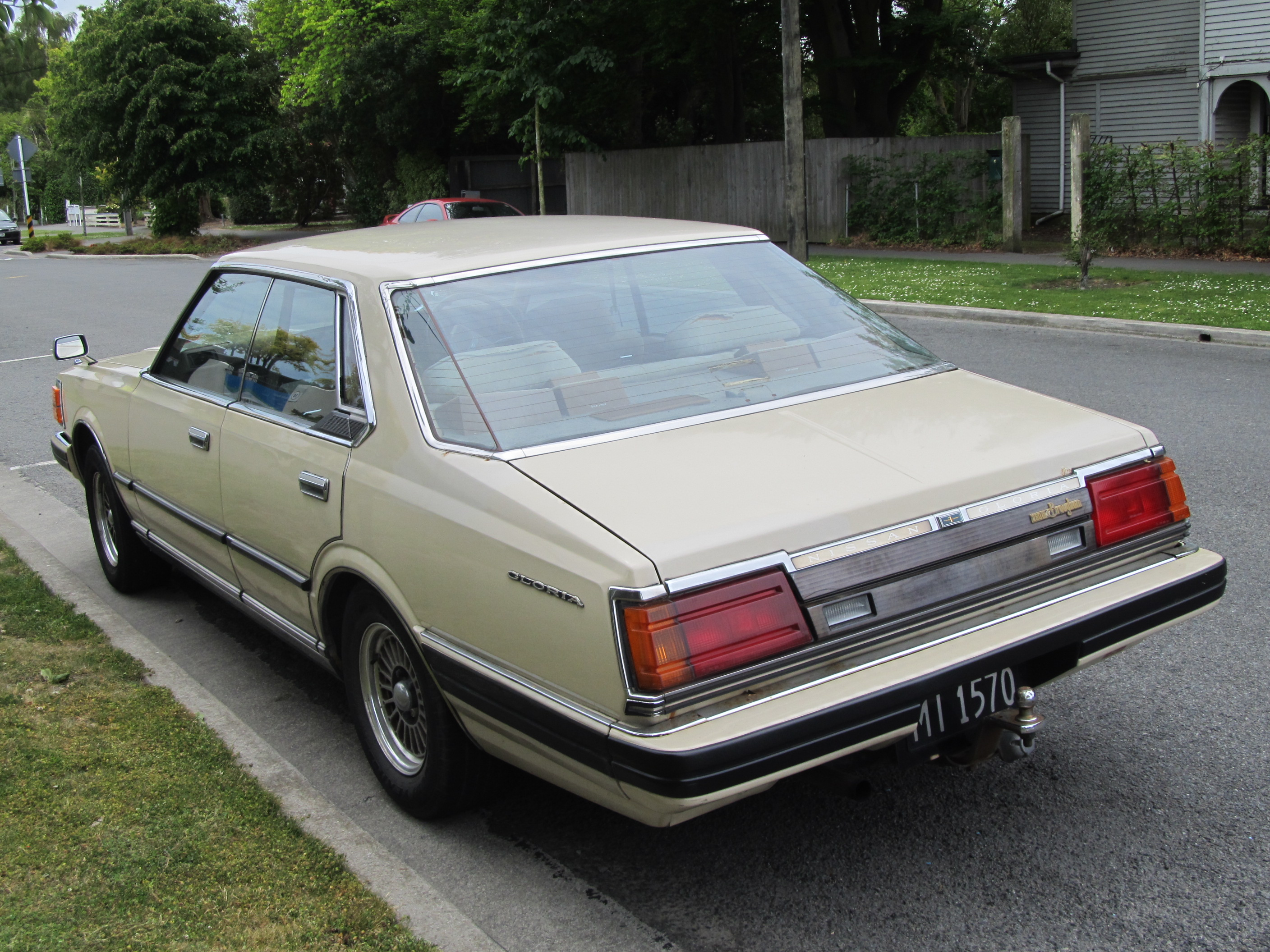 MI1570 I love the pillarless design on these - probably one of the most recognisable Japanese features of the 80s/90s along with the bonnet mounted mirrors! I wonder what the owner looks like, given that this was parked outside a rest home...